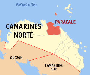 Map of Camarines Norte showing the location of Paracale